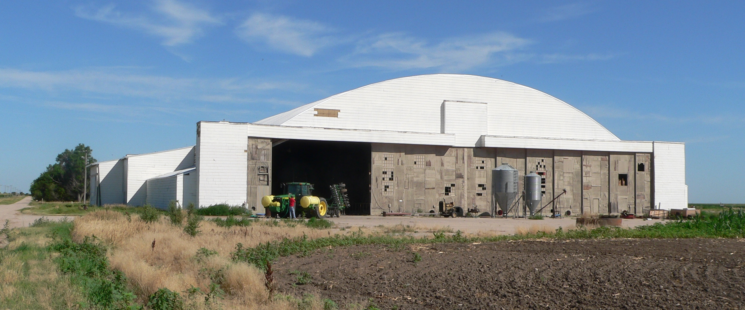 Hangar building at intersection of county roads DR 723 and DR 381 at McCook Army Airfield in northern Red Willow County, Nebraska. The road going toward the trees at the extreme left of the photo is DR 723.